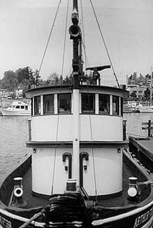 From: Image URL